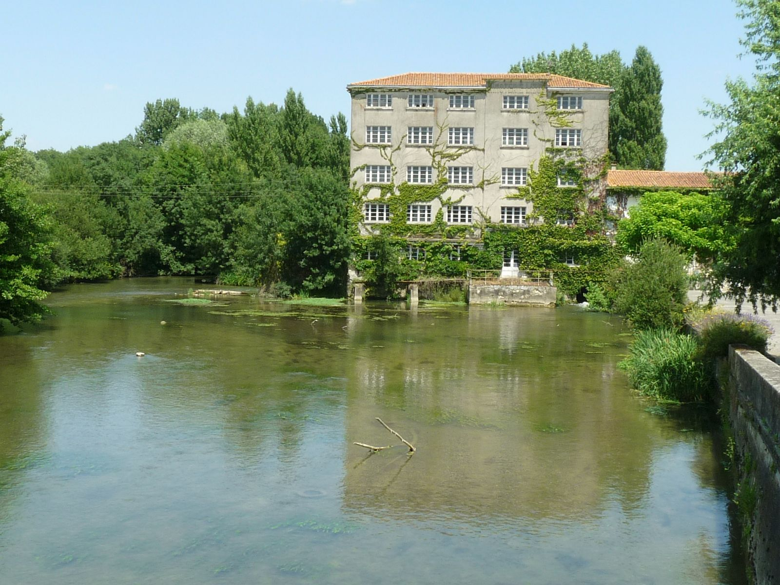 The river Charente at Vars, Charente, France. Lizot watermill.